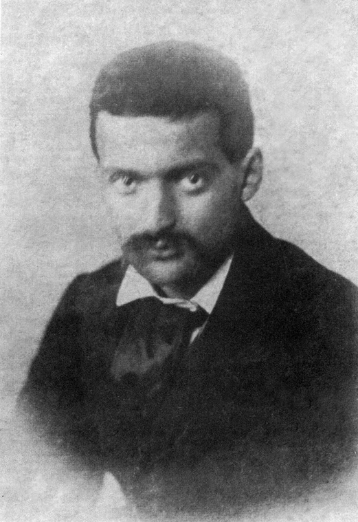 Portrait of Paul Cézanne